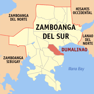 Map of Zamboanga del Sur showing the location of Dumalinao